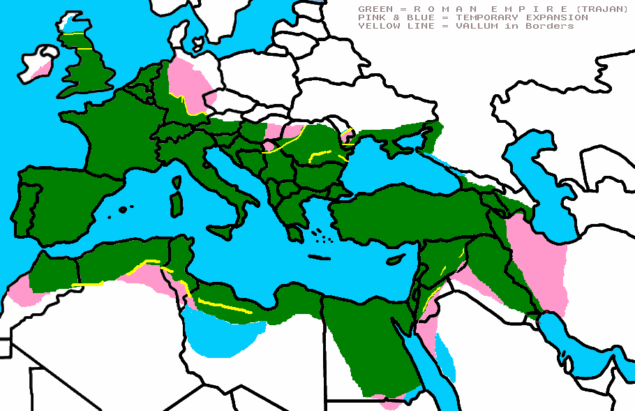 Map of Roman Empire at Trajan times, with temporary expansions and main Vallums in borders.